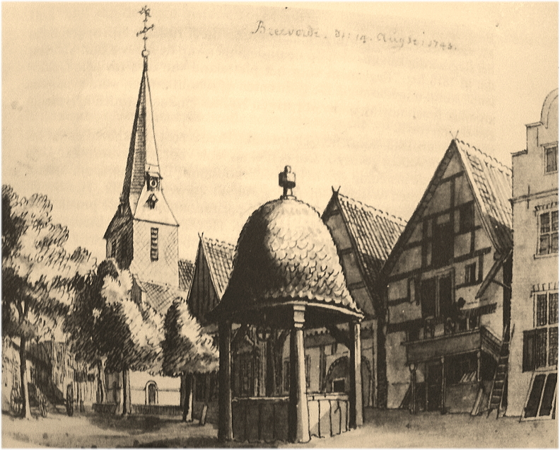 The city center of Bredevoort in 1743